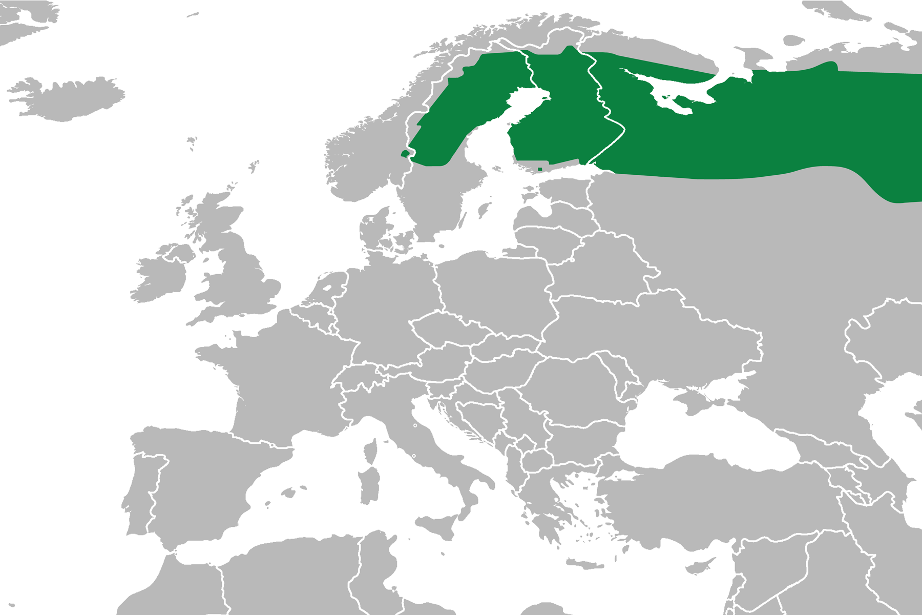 Distribution of rustic bunting in Europe in 2009